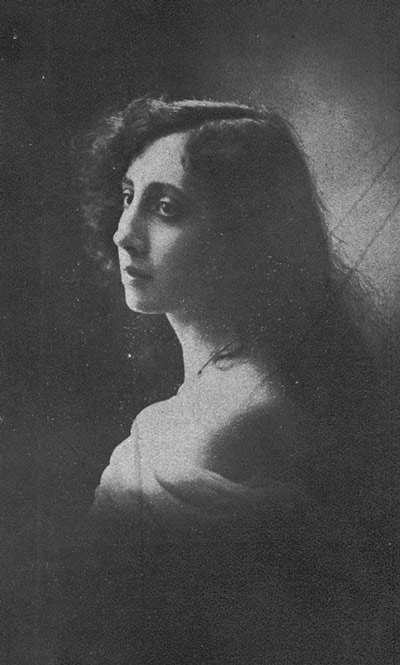 Winétt de Rokha, seudónimo de Luisa Anabalón Sanderson (Santiago, 7 de julio, 1892 - 7 de agosto, 1951), fue una poeta chilena. En los inicios de su carrera utilizaba el seudónimo de Juana Inés de la Cruz. Fotografía que aparece al comienzo de "Lo que me dijo el silencio".